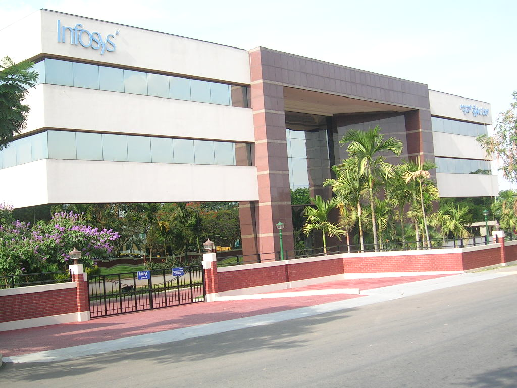 This is a photograph taken by me of the Head Quarters of Infosys in Electronic City, Bangalore. I release it under GFDL or any other unrestricting license. It would be great if I'm informed or acknowledged though. -- User:Sundar